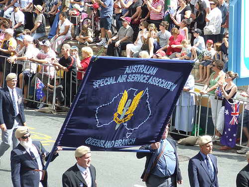 Members of the Queensland branch of the Australian Special Air Service Regiment association during the 2007 ANZAC Day march in Brisbane. From this set of reports about Anzac Day 2007 at the Brisbane Is Home blog. You are free to use this photo for any reasons, including commercial reasons, but you MUST credit with a link if you use it on the Internet, or by printing the URL next to or on the photo if used away from the Internet.